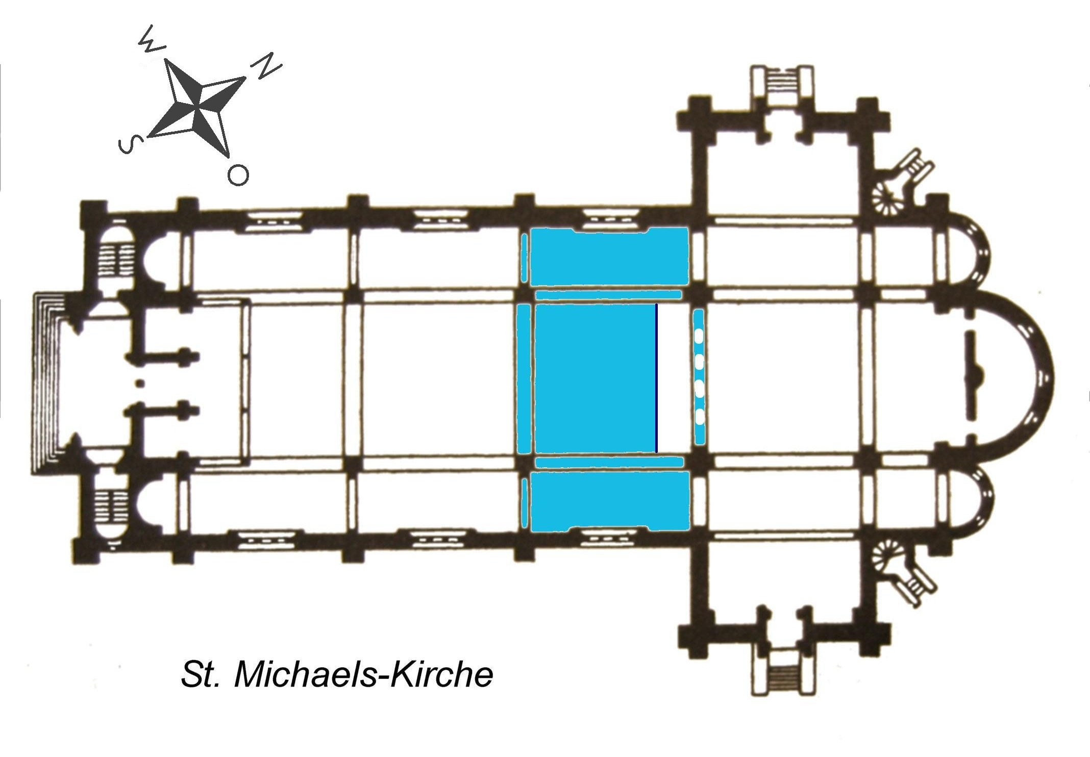 Outline of the Saint Michael church (Sankt Michaelskirche) in Berlin